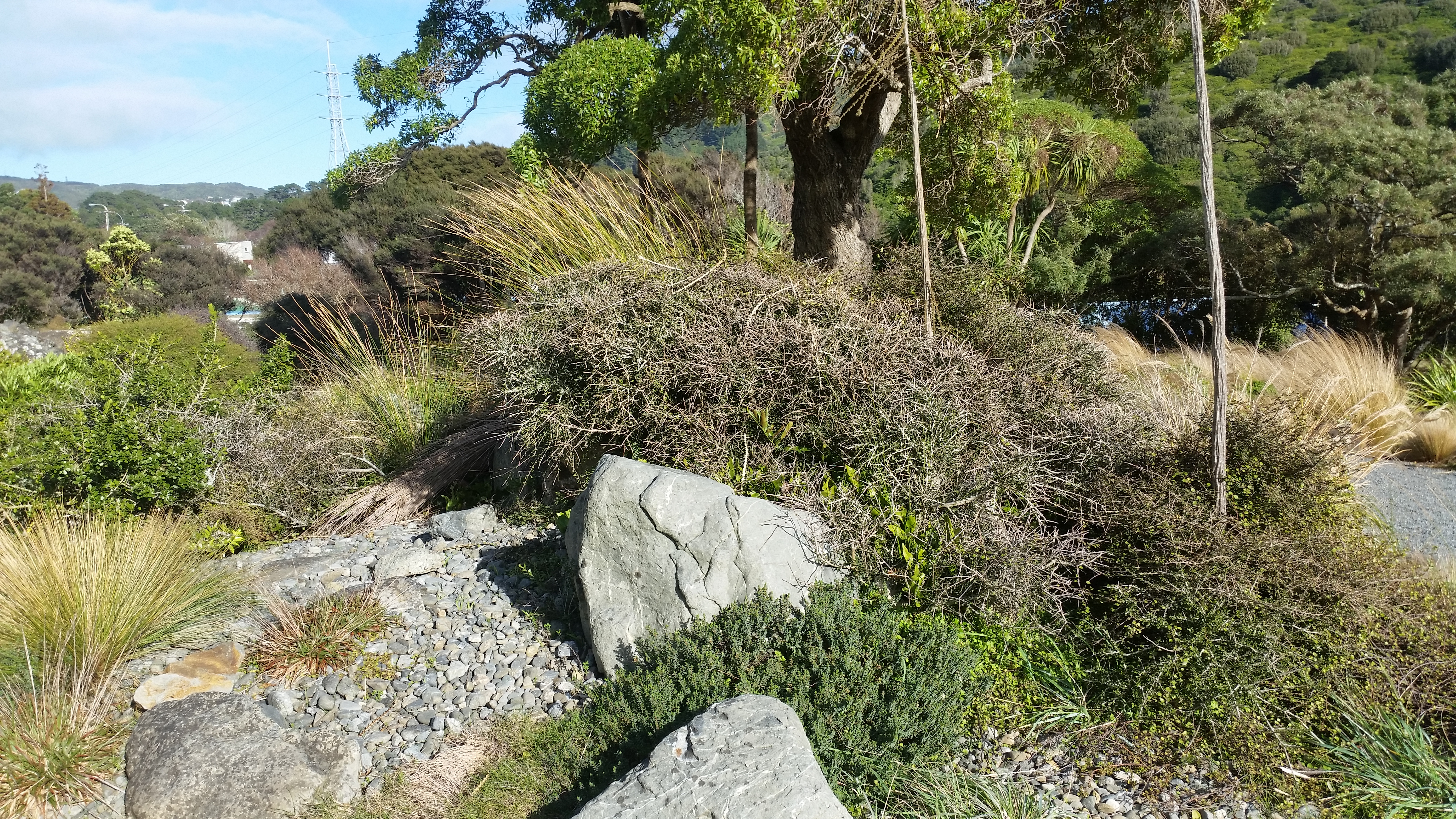 The grave site of Dr Leonard Cockayne and his wife Maud at Otari-Wilton Bush in Wellington, New Zealand.